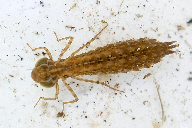 Anax imperator (Aeshnidae) (Blue Emperor) - (larva - nimf), Buren (Gld.) - Tichelgaten, the Netherlands